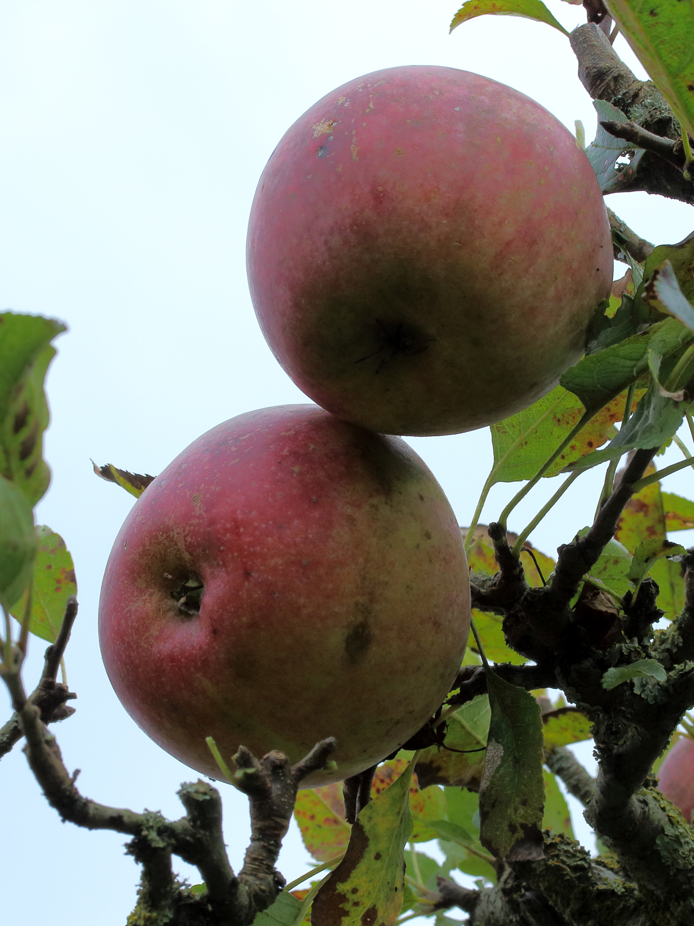 Apple Malus domestica Allington Pippin